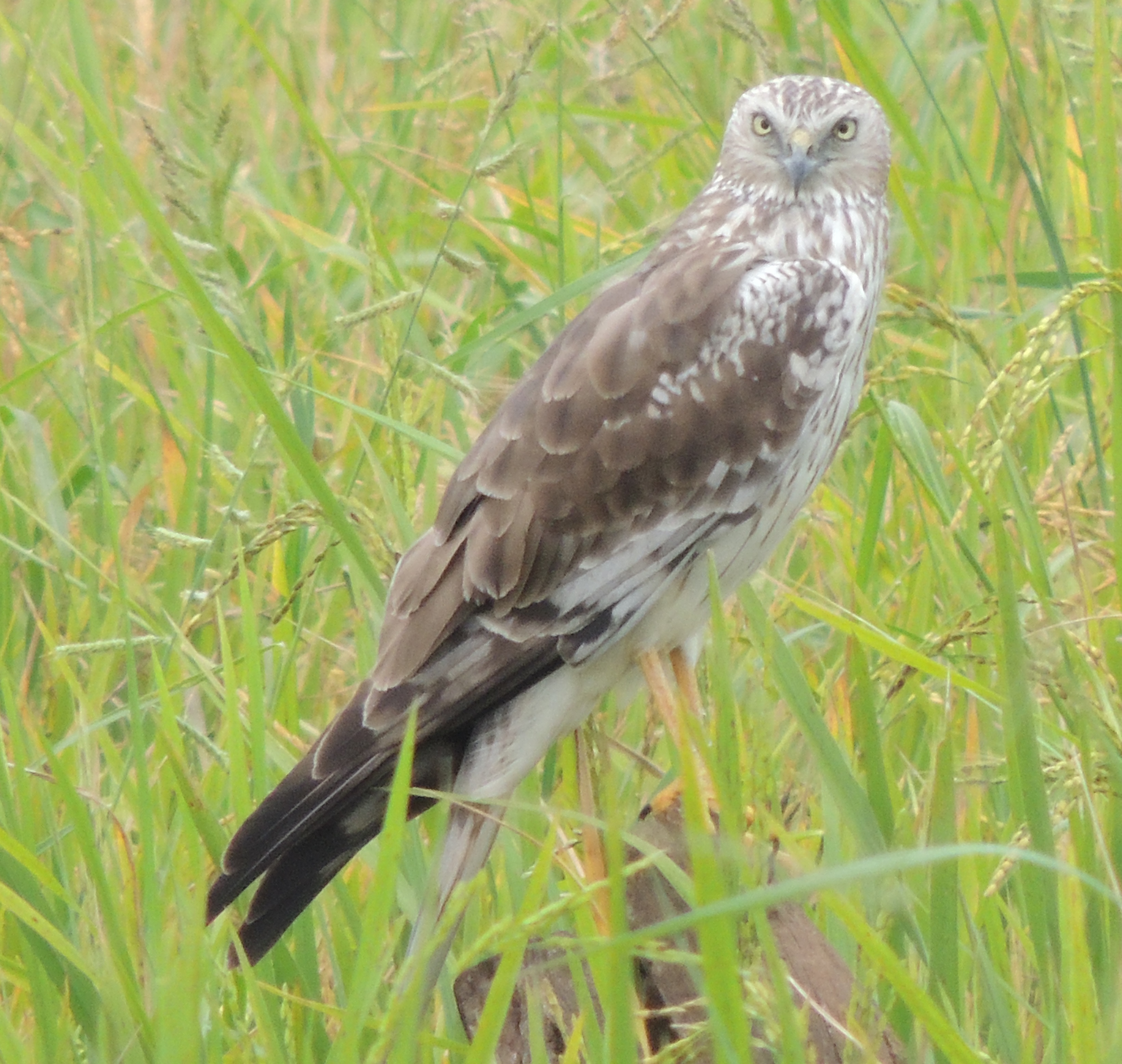 Pied Harrier-Female from Kole Wetlnads of Thrissur